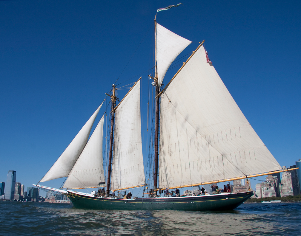 The Lettie G. Howard sailing the New York City Harbor in the fall of 2010.